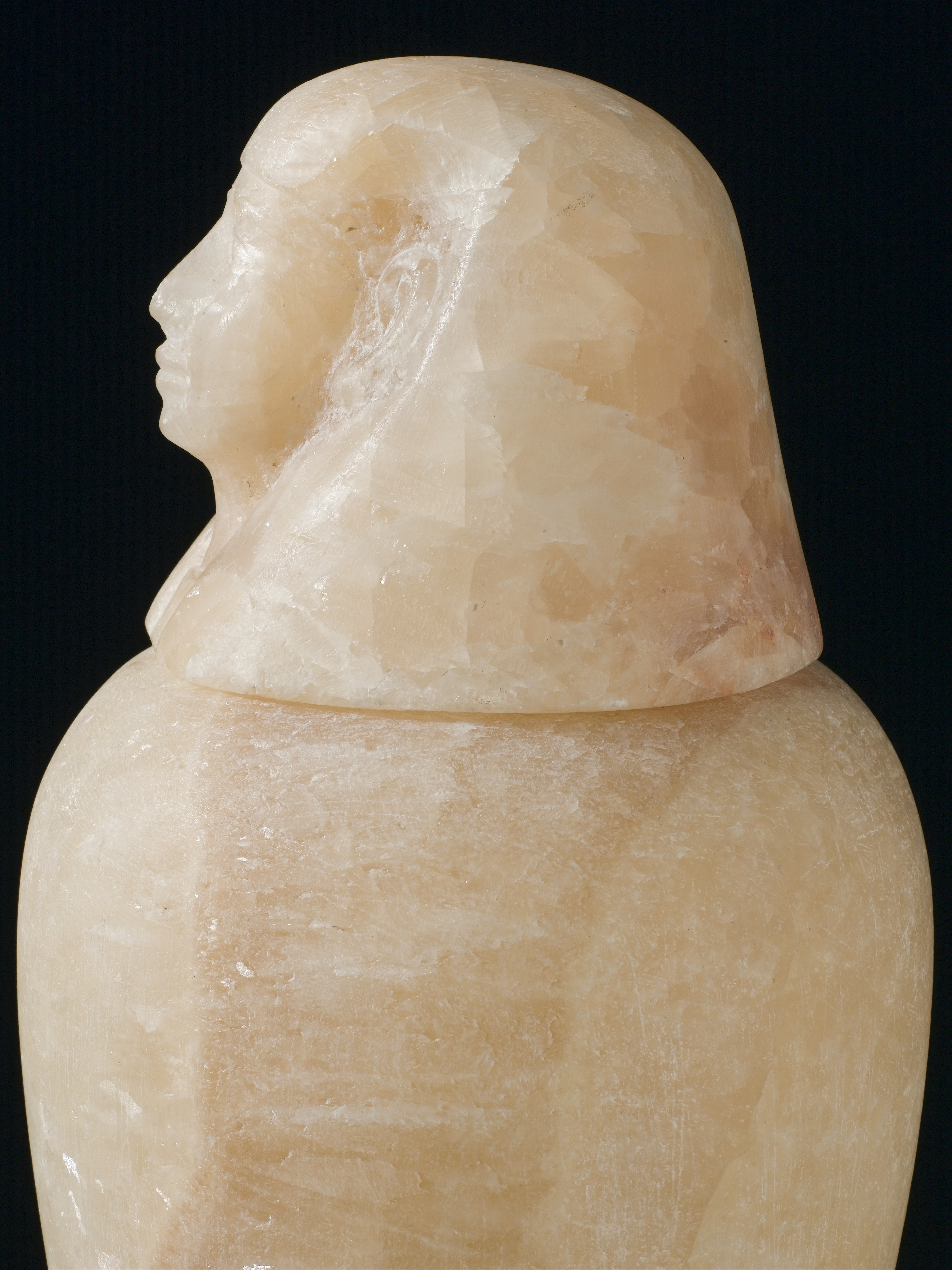 Alabaster canopic jar with portrait of Imseti, Egyptian, 800 - 200 BC. Side (profile) detail view. Black background. Wellcome Images